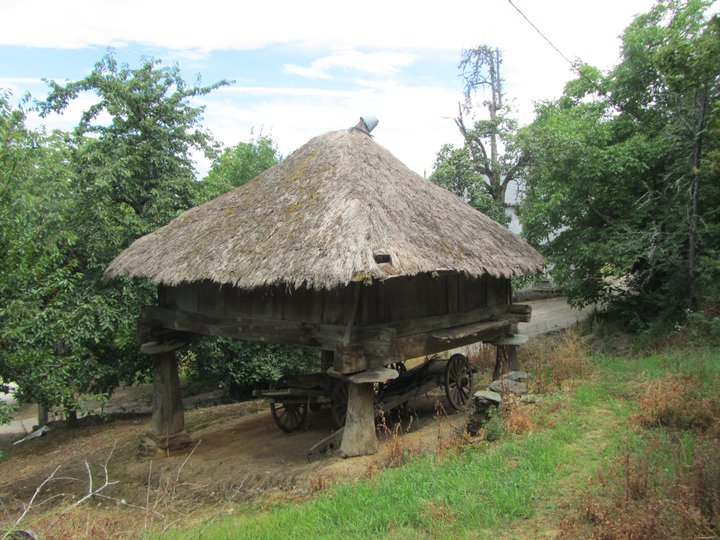 palloza